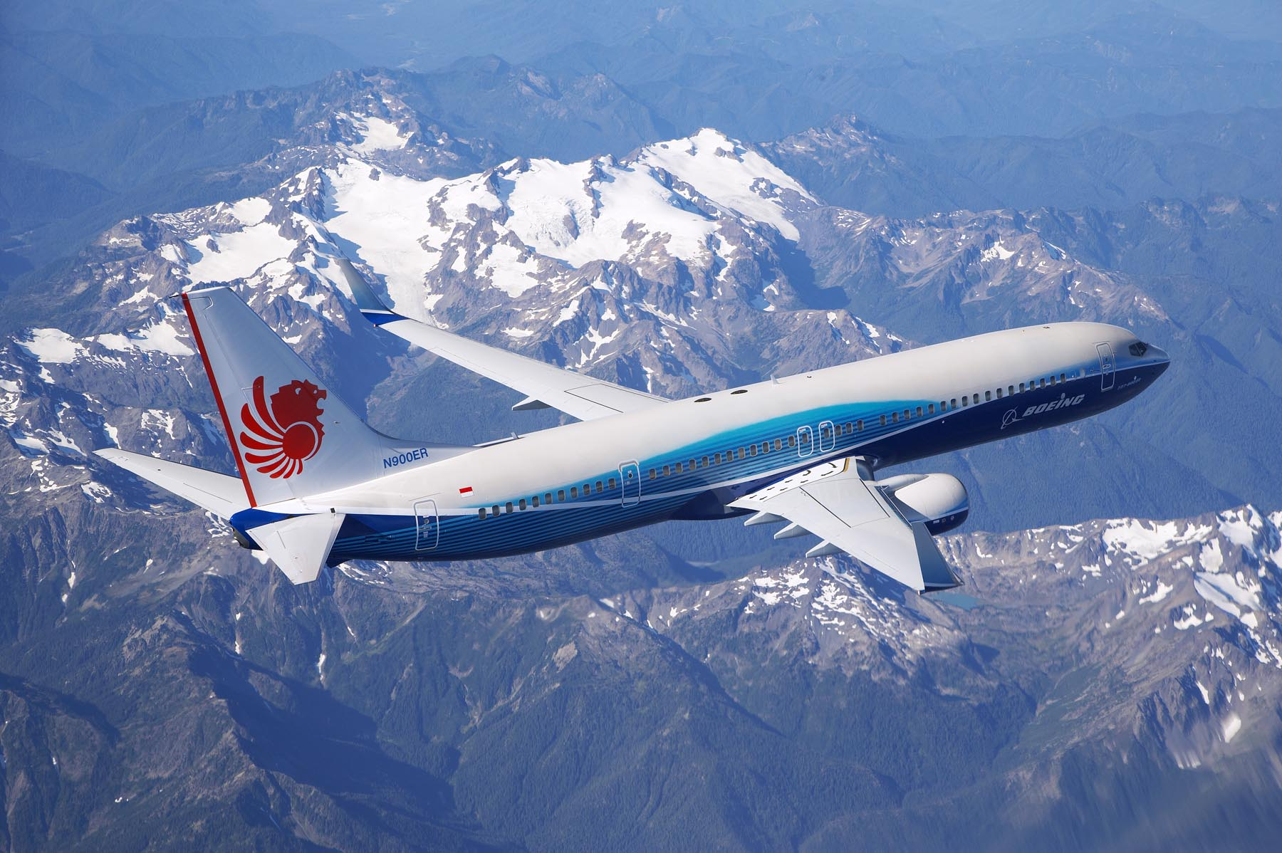 Lionair 737-900 ER first flight